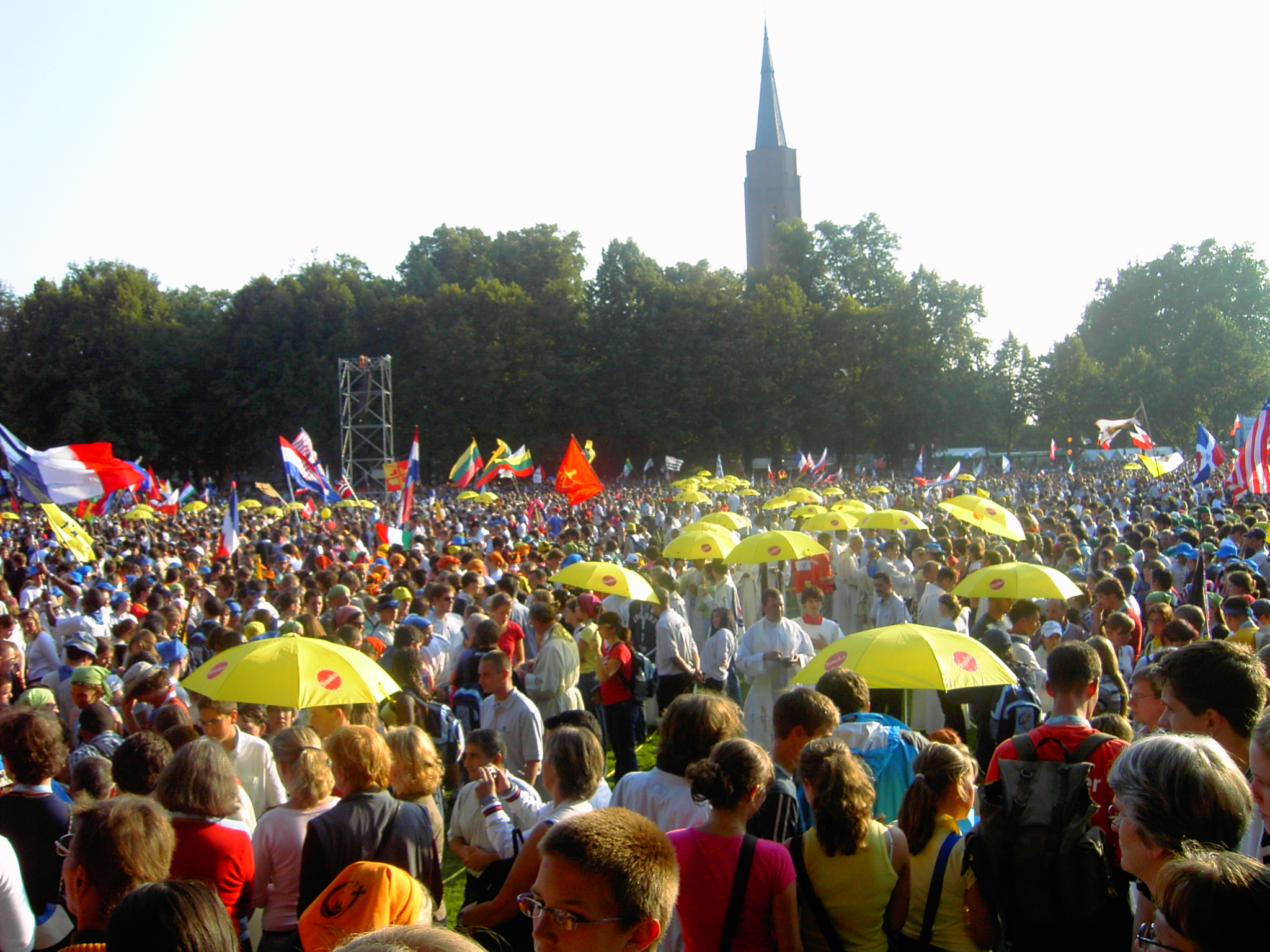 The opening of the WYD 2005 at Bonn, Germany. The priests are under yellow „Sinalco“-umbrellas.